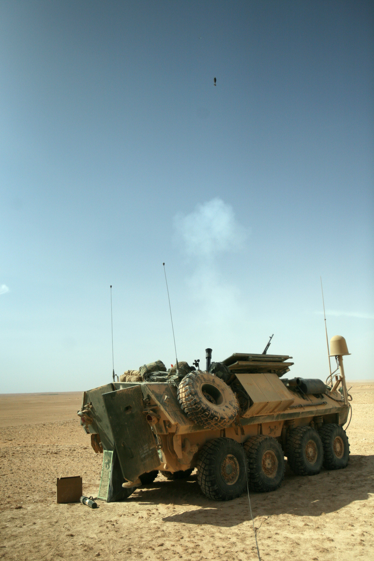 A Light Armored Vehicle with Fox Company, 1st Light Armored Reconnaissance, Regimental Combat Team 8, fires an 81mm high explosive mortar at a range here. This is the first time that mortarmen with Company F have been able to focus their primary skills due to their deployment mission of monitoring the Syrian border.